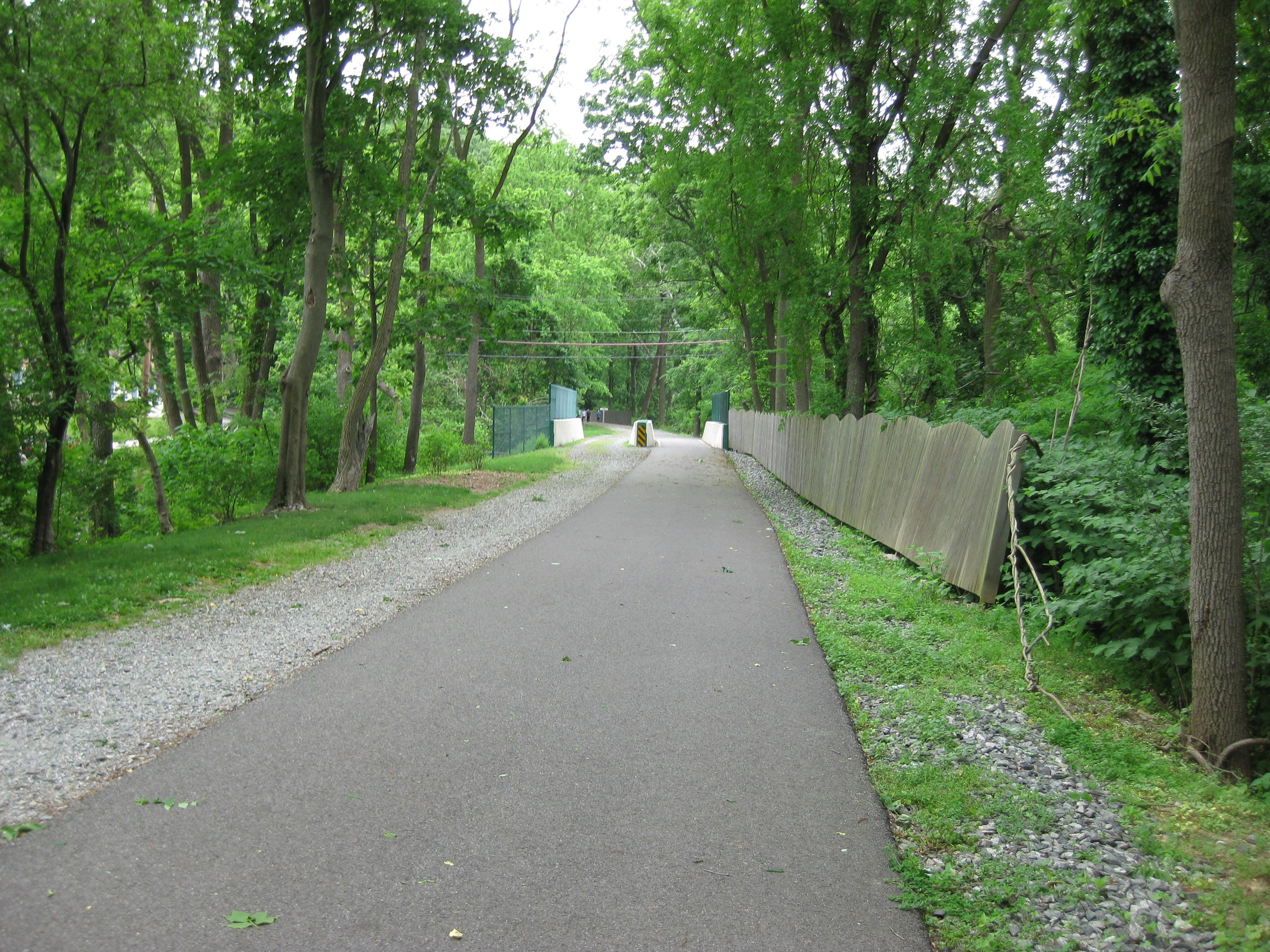 Photograph of the roadbed of the Straford branch of the Philadelphia and Western Railroad where it crosses Conestoga Avenue in Wayne, PA. In 2005 the roadbed was converted to a bike path called the Radnor Trail. See also File:P& W Substation 1.JPG.